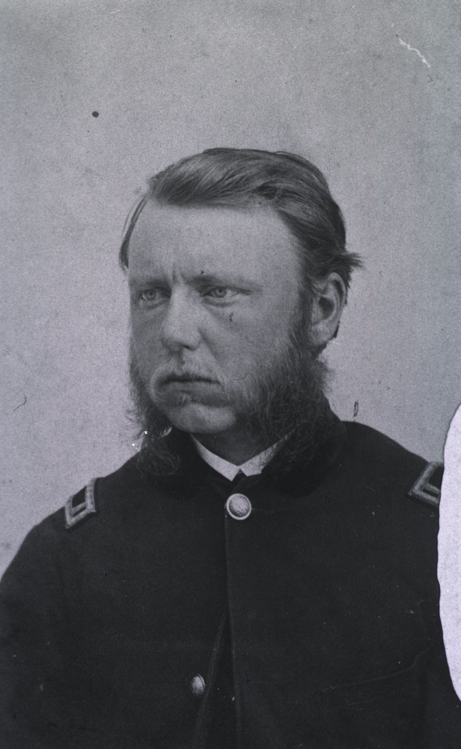 Portrait of physician and ethnographer Washington Matthews.